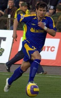 Sergei Omelyanchuk in action for FC Rostov